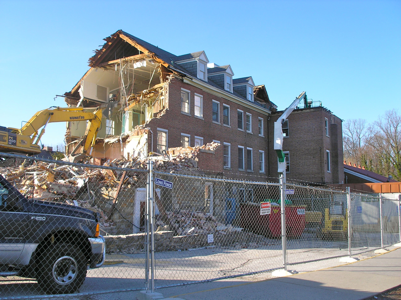 Kelso Home for Girls / YMCA demolition from north-east